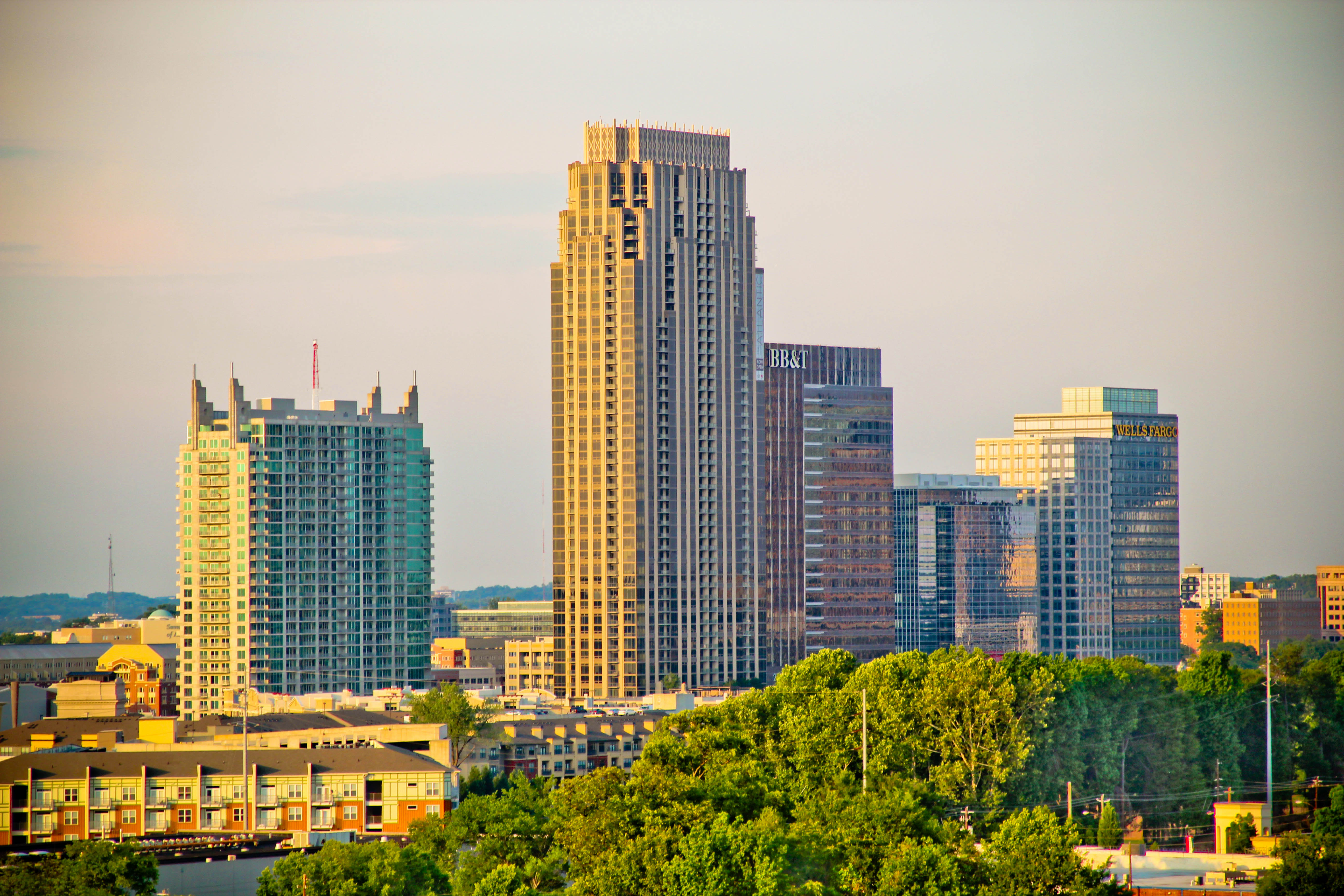 Atlanta's permiere Live, Work, Play community.